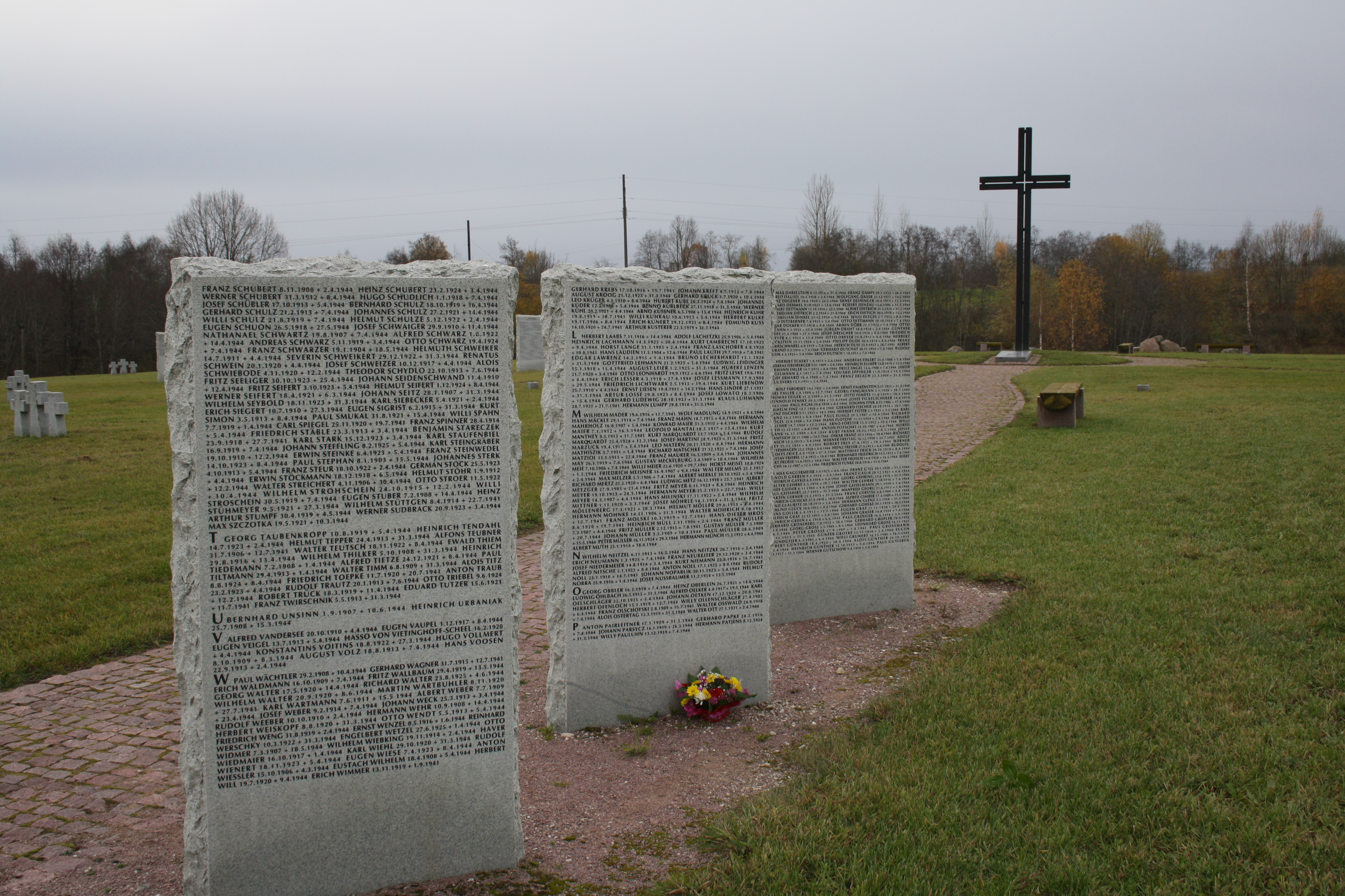 German cemetary Sebezh, WWII: Names of casualties on stele.